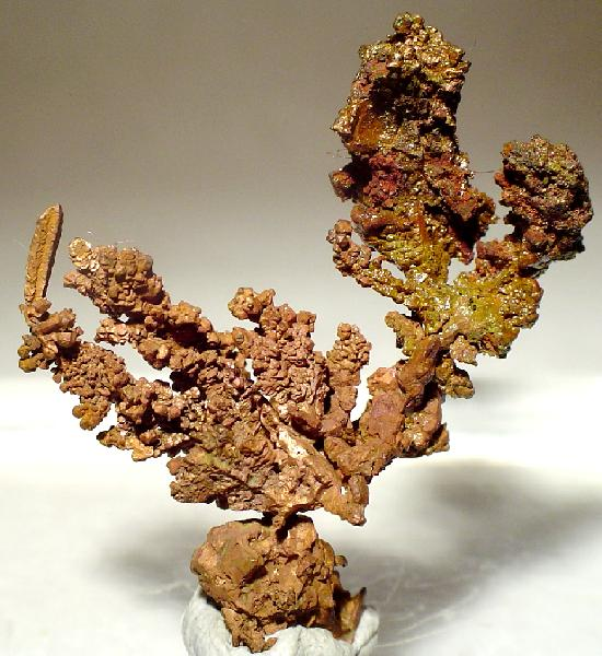 Copper Locality: Mufulira Mine, Copperbelt Province, Zambia (Locality at ) A beautiful and aesthetic arborescent copper specimen with a fantastic 8 mm spinel-twinned copper crystal perched at the end of one the branches. Excellent patina and material from a lesser-known Zambian copper mine. 3.1 x 2.9 x 1.1 cm